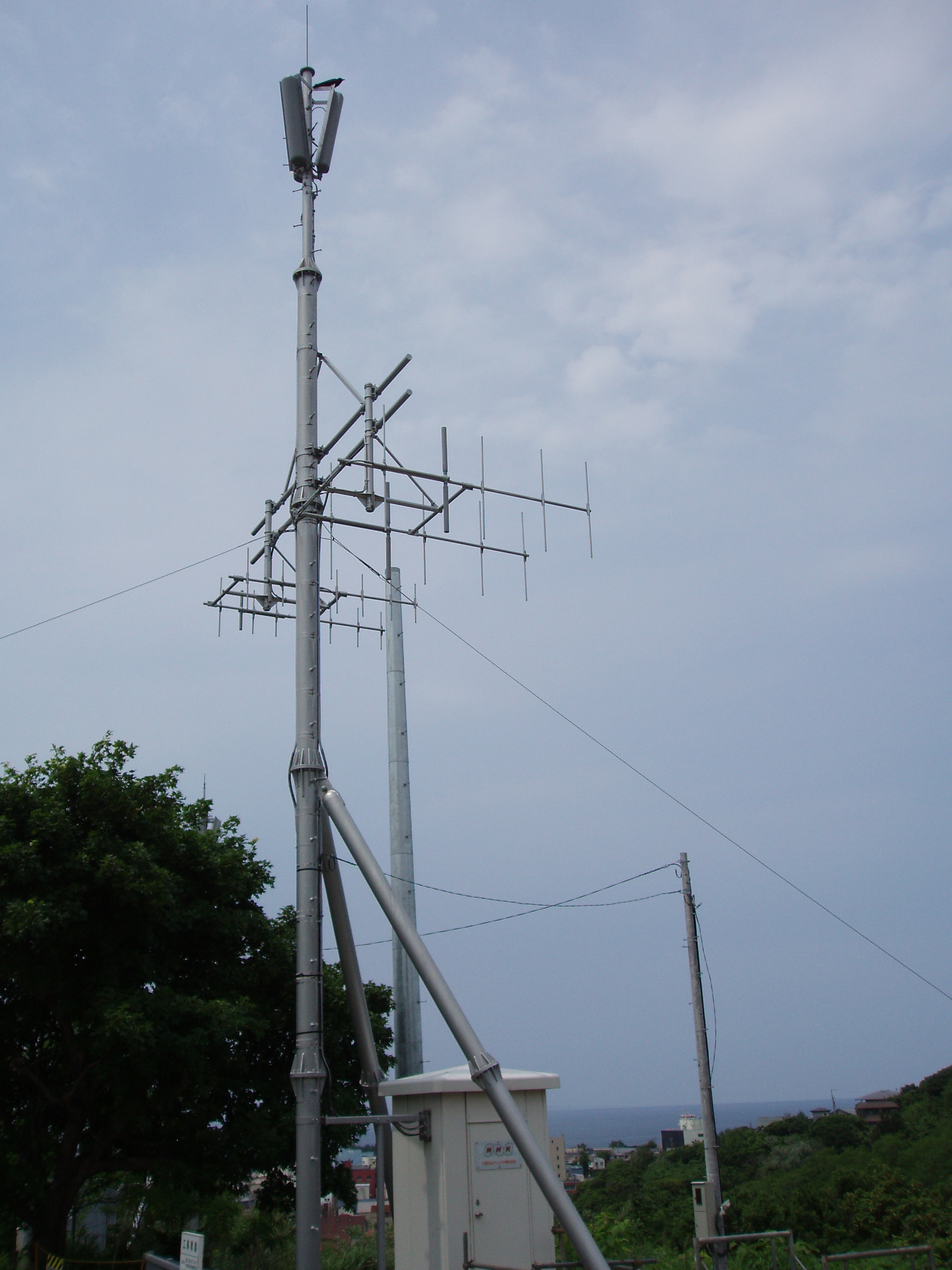 NHK Esashi Maruyama Broadcasting Relay Station